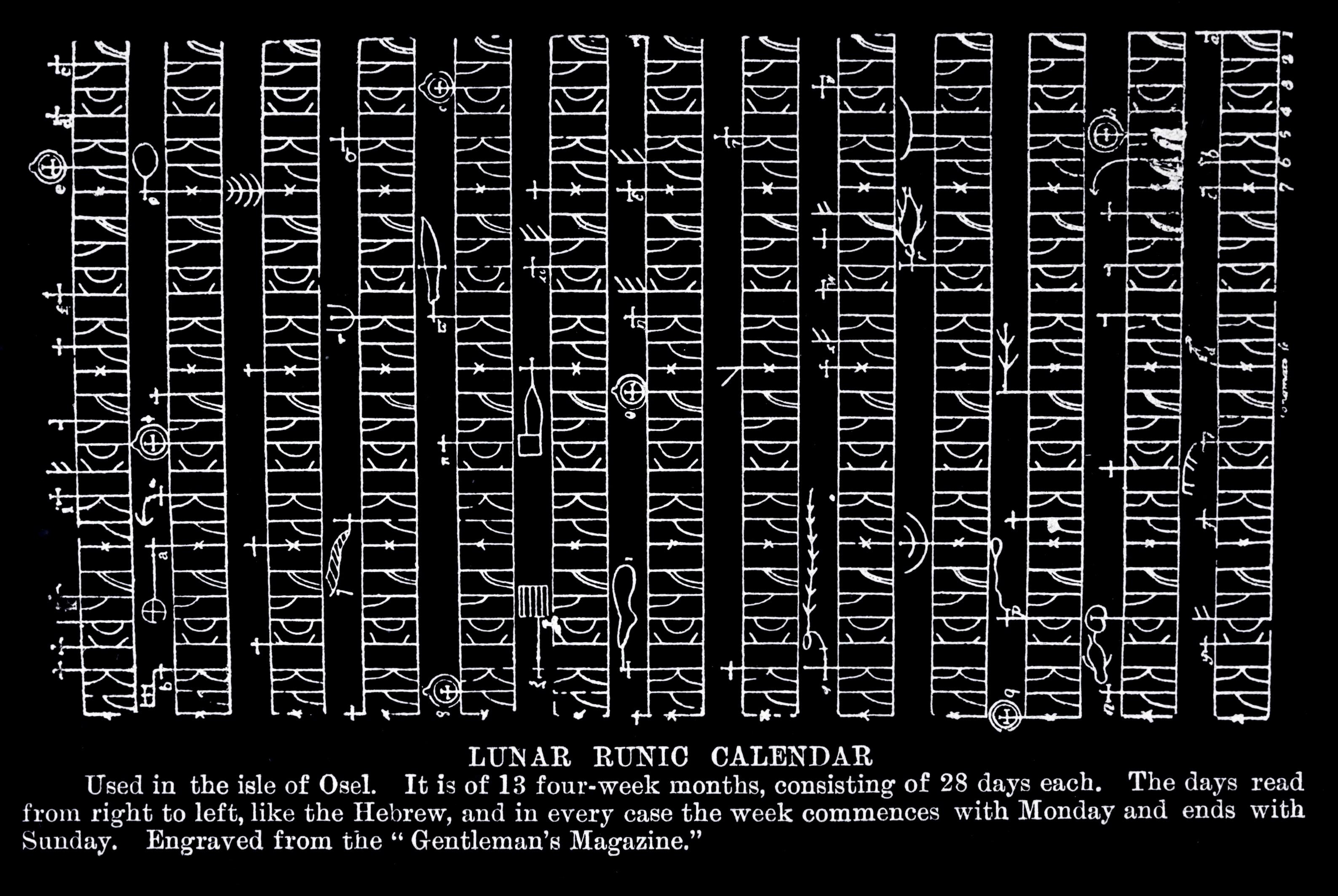 Old runic calendar from Saaremaa in Estland. Quote from the Wikipedia article: "The name Eysysla appears sometimes together with Adalsysla, "the big land", perhaps 'Suuremaa' or 'Suur Maa' in Estonian, which refers to mainland Estonia. In Latvian, the island is called Sāmsala, which means "the island of Saami""[1] Øsel is the name of the island when it was under Danish rule in the medieval period, and the Swedish with the name Ösel. The ancient Greek - Phonicians and culture of the pre-christian Roman Empire likely influenced these Baltic and Nordic runic scripts. People with the runes likely came to the Nordic and Estonian - Baltic areas with the Iron-Age Indo-European people connected to the Early Roman Empire. This period is archaeologically named: The Roman Nordic Iron Age. A people that from early on merged with the indigenous people and that later were displaced from the areas they inhabiated in the Nordic by the Dacian people that came from Eastern Europe to the northwestern and the Nordic areas during the medieval period.